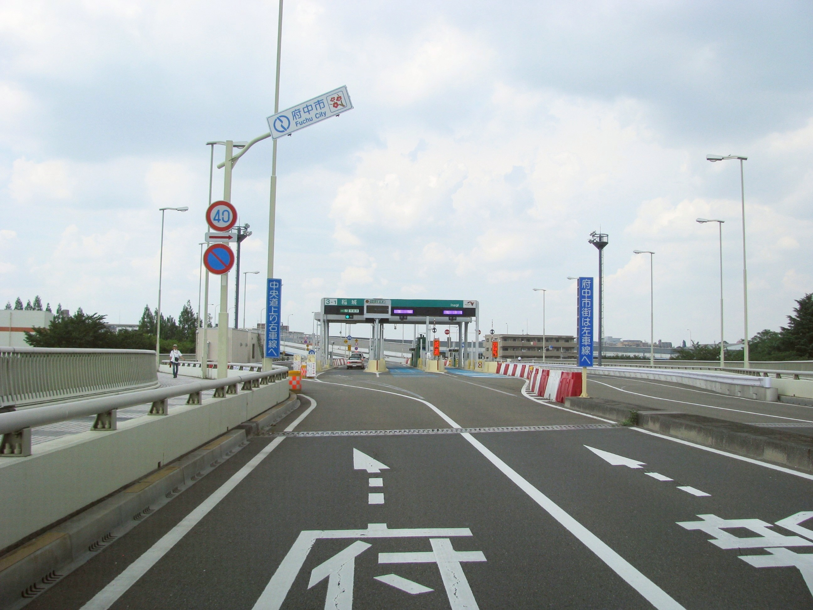 The Inagi interchange of Chūō Expressway. This place is Fuchū in Tokyo, Japan.